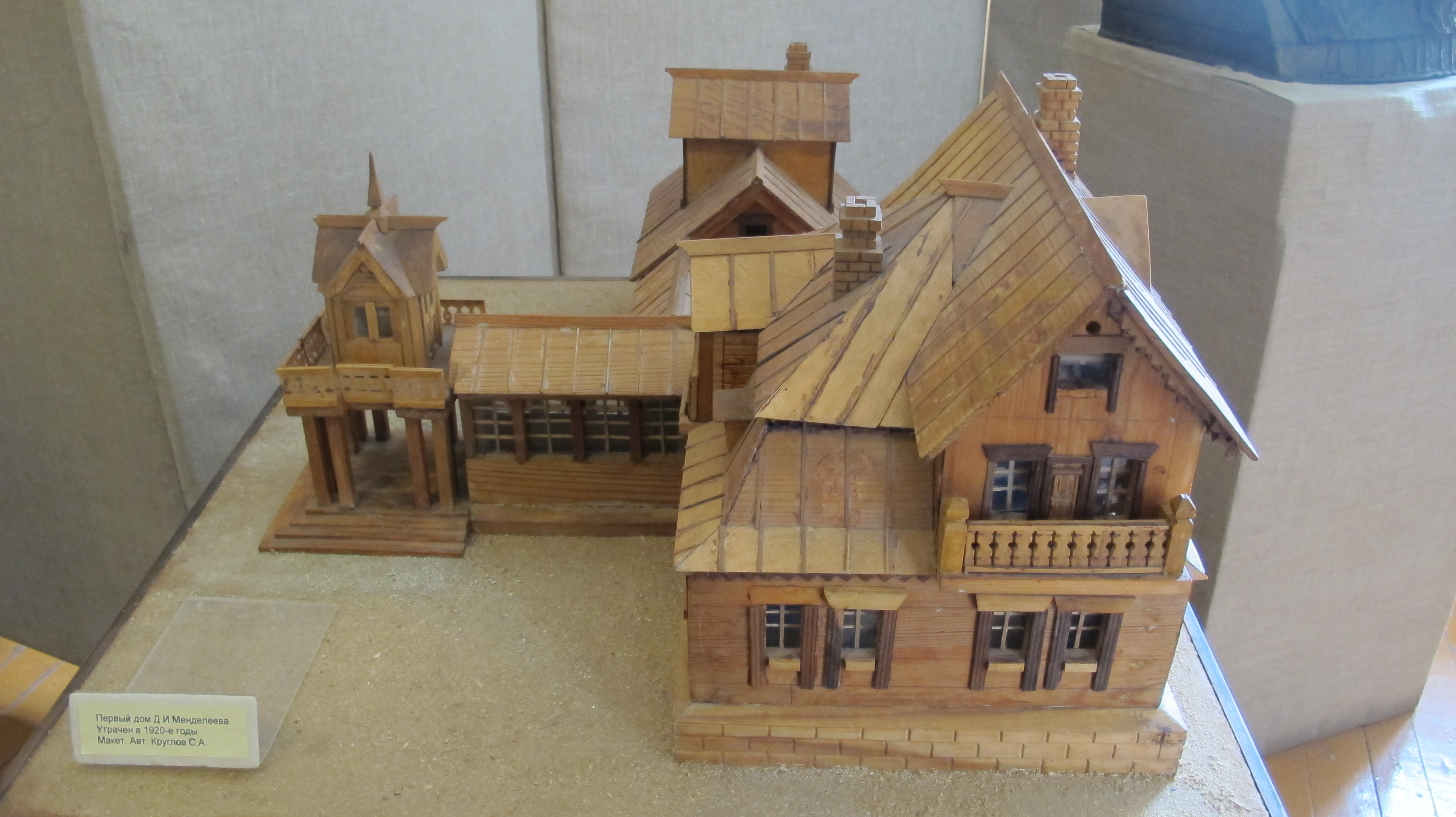 Boblovo museum 2016-07-30